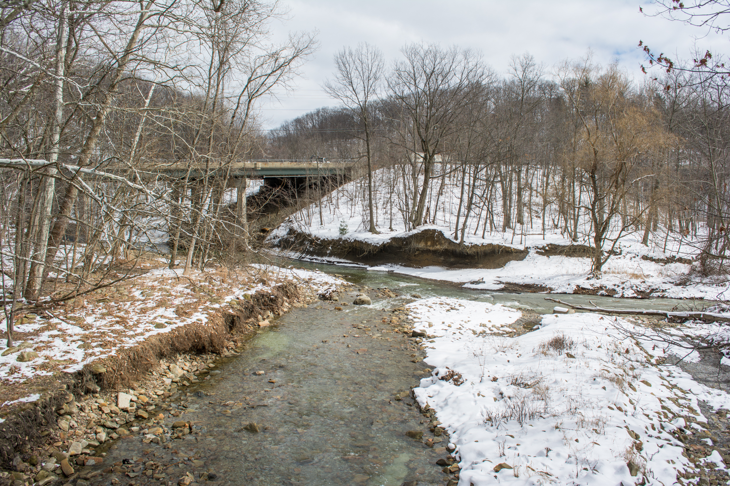 Confluence of the main branch (left) and east branch of Euclid Creek in the Euclid Creek Reservation, a park in the Cleveland Metroparks system located in Cleveland, Ohio, in the United States.